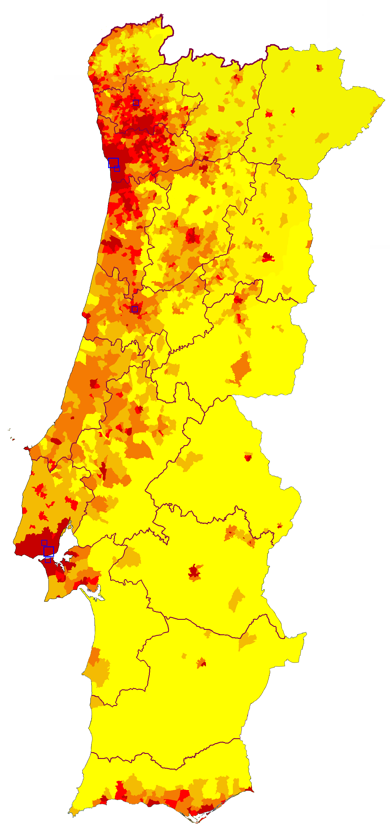 Population density of Portugal, pr square kilometer. 0-49 50-99 100-299 300-599 600+